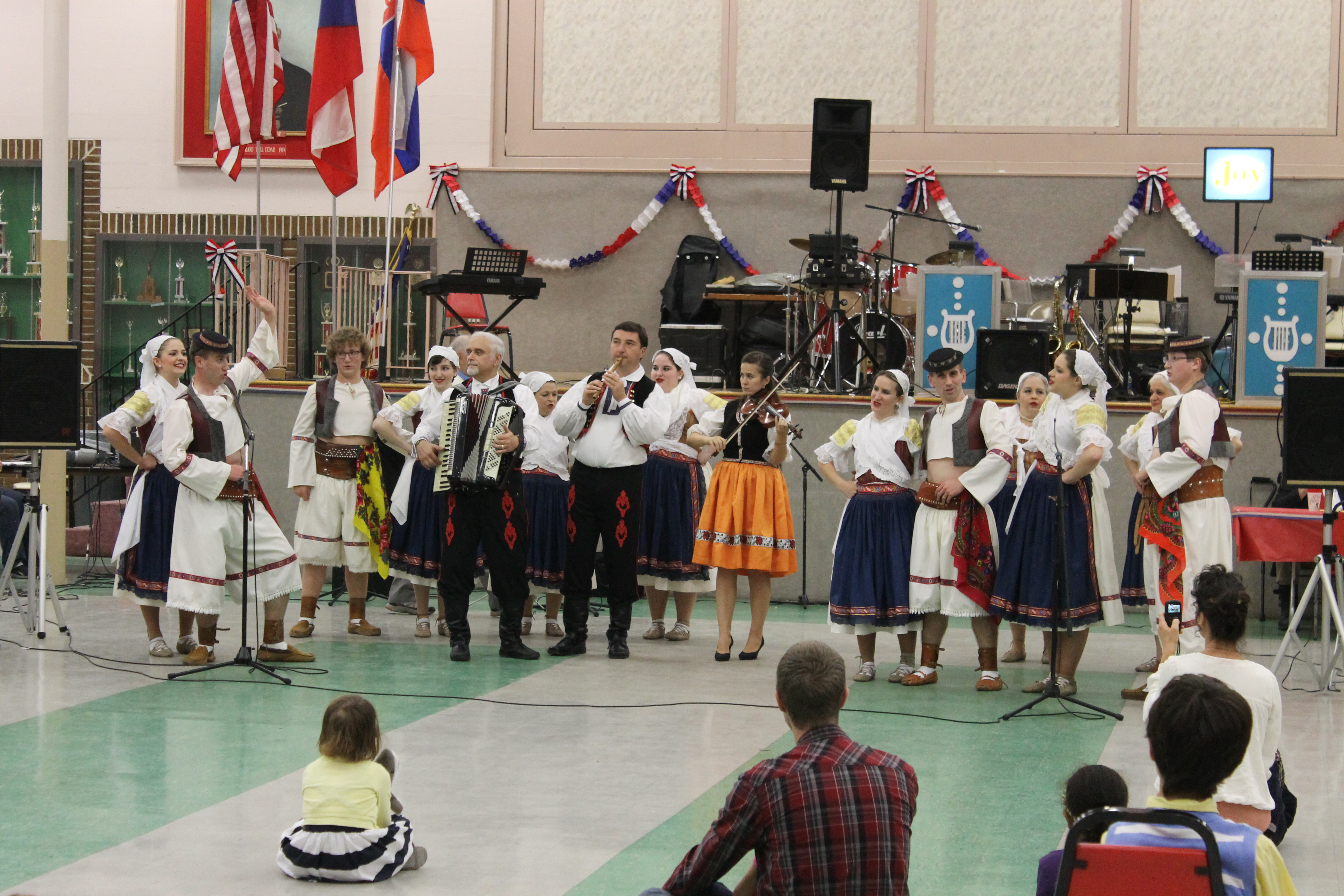 Pittsburgh Area Slovak Ensemble at the twenty-eighth annual Czech and Slovak Heritage Festival, Parkville, Maryland.